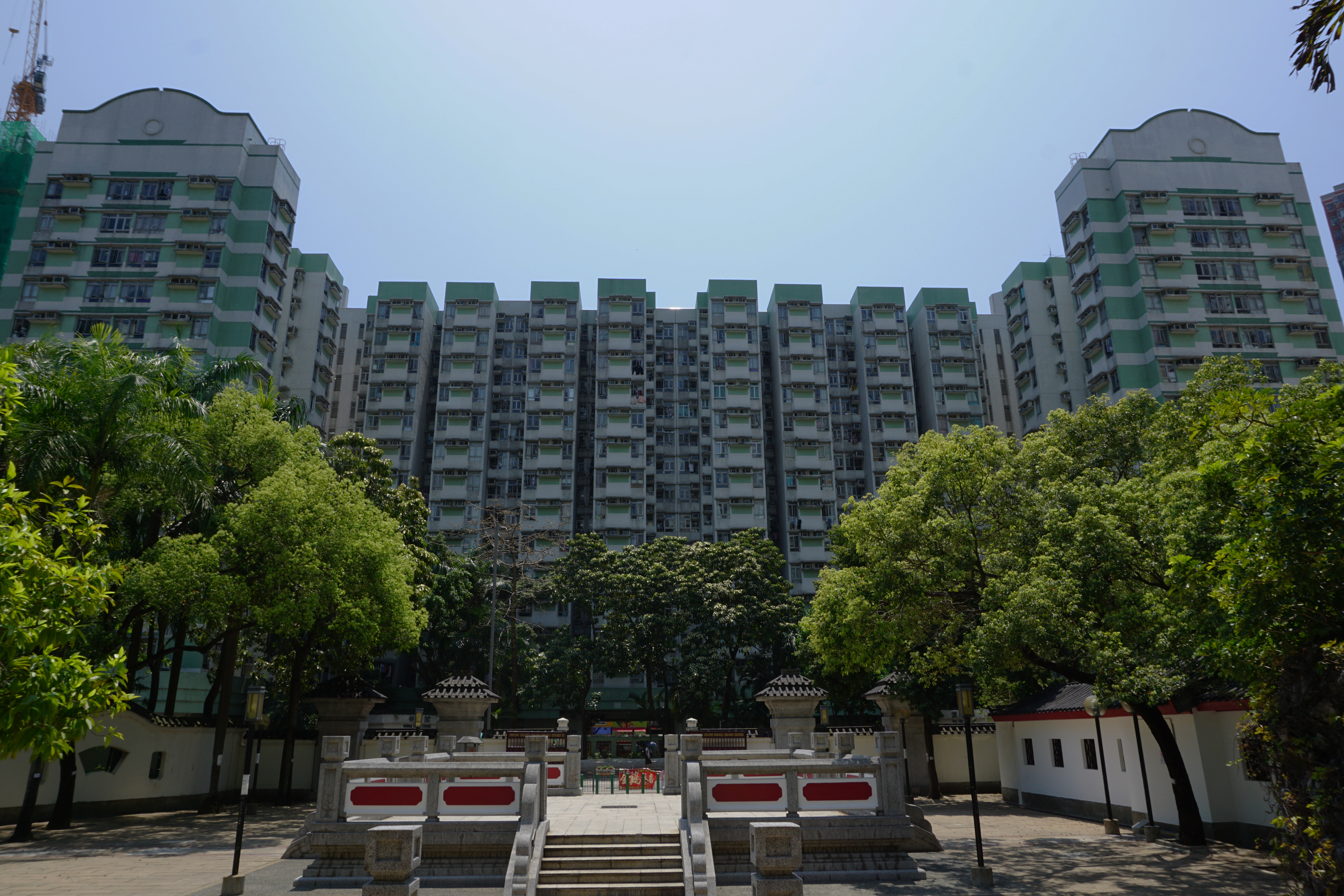 Po Hei Court in Cheung Sha Wan, Hong Kong.